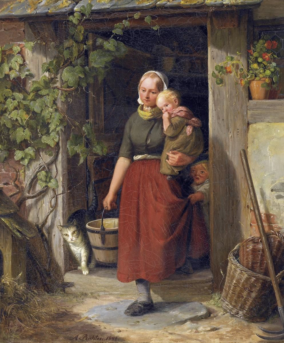 A young wine grower and her children